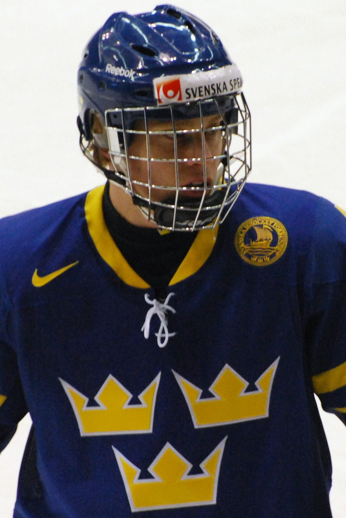 Adam Larsson during a game against Austria at the 2010 World Junior Championships.